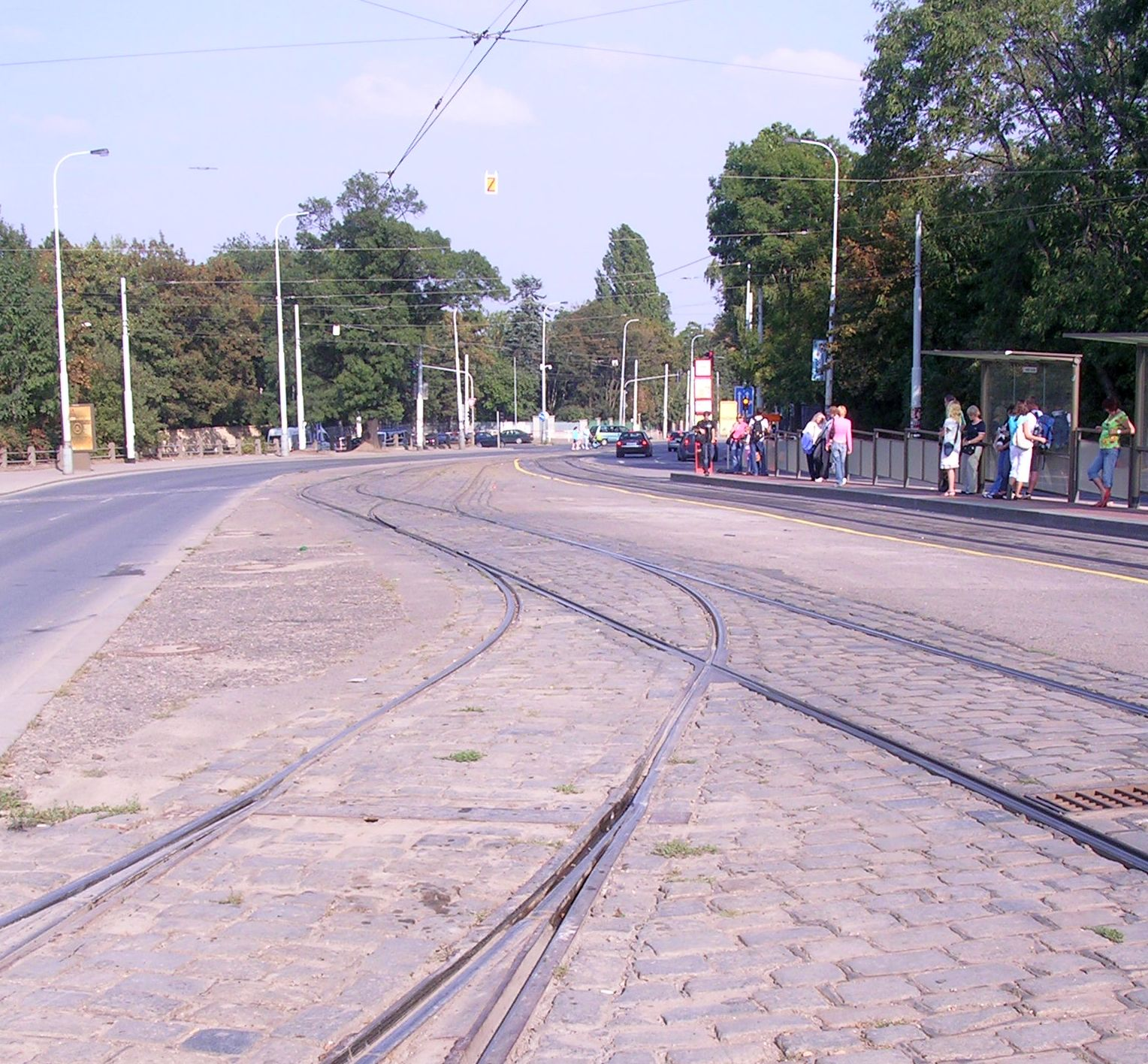 Střešovice, Prague, the Czech Republic. Tram stop near the tram depot. - Google Maps - Google Earth